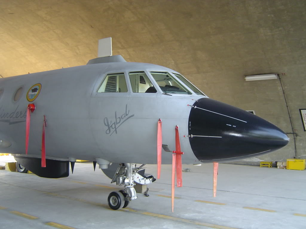 A Dassault Falcon 20 (DA-20) jet aircraft, fitted with electronic warfare equipment and nicknamed "Iqbal" after a Pakistani war veteran, is parked in a hangar at a Pakistan Air Force airbase. It is operated by the PAF's No. 24 Blinders Squadron.